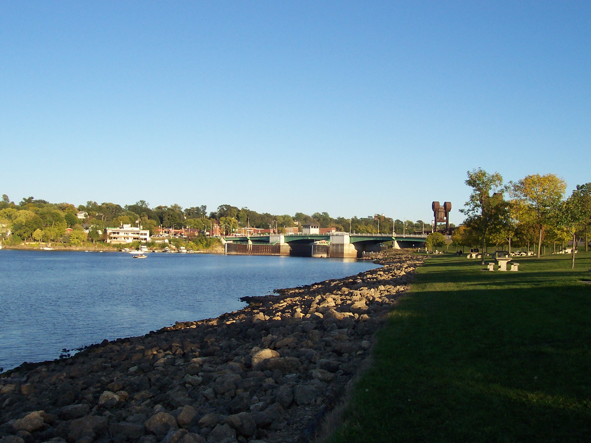 View of Prescott, Wisconsin, from park on Point Douglas